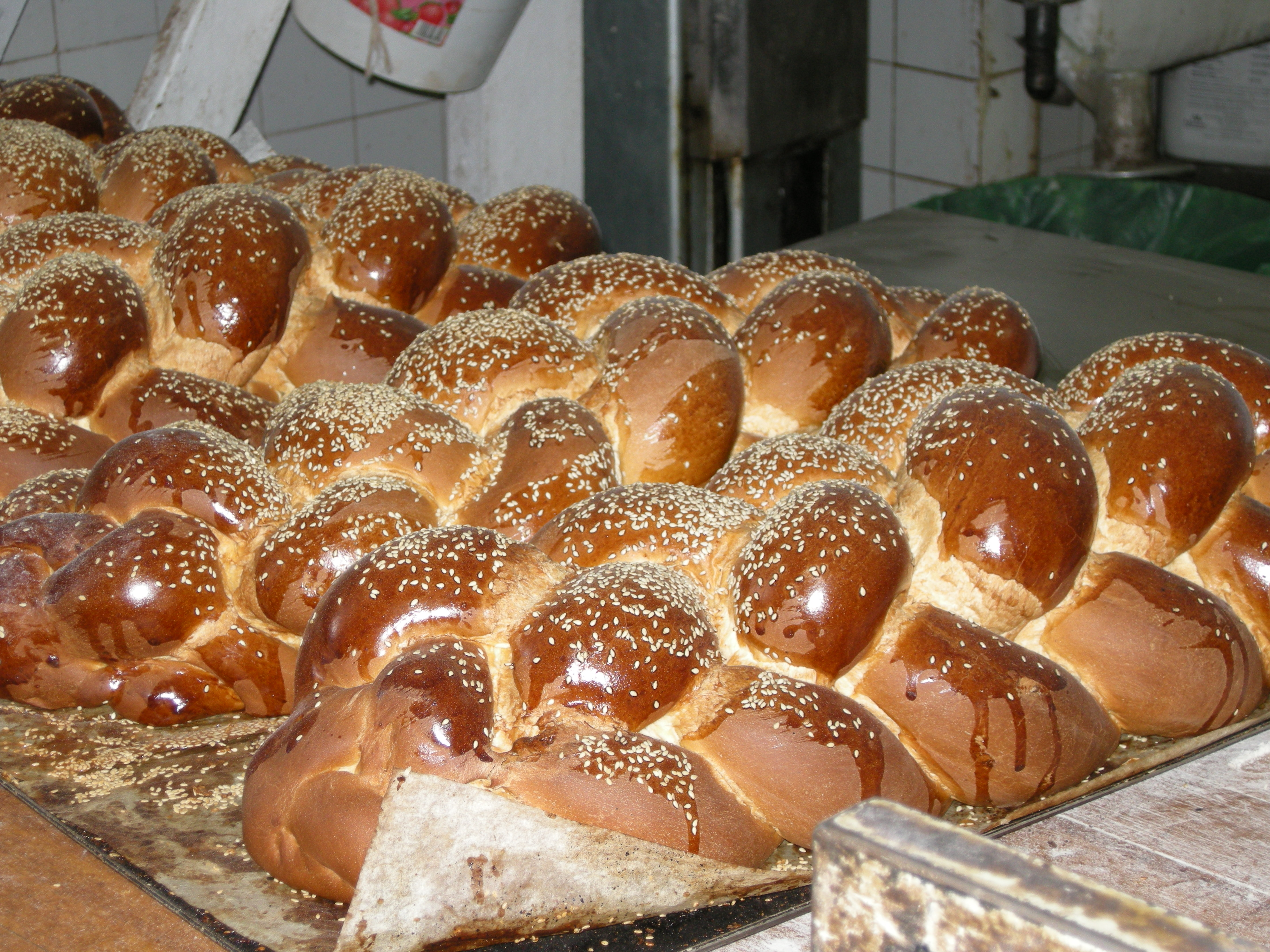 Mea Shearim